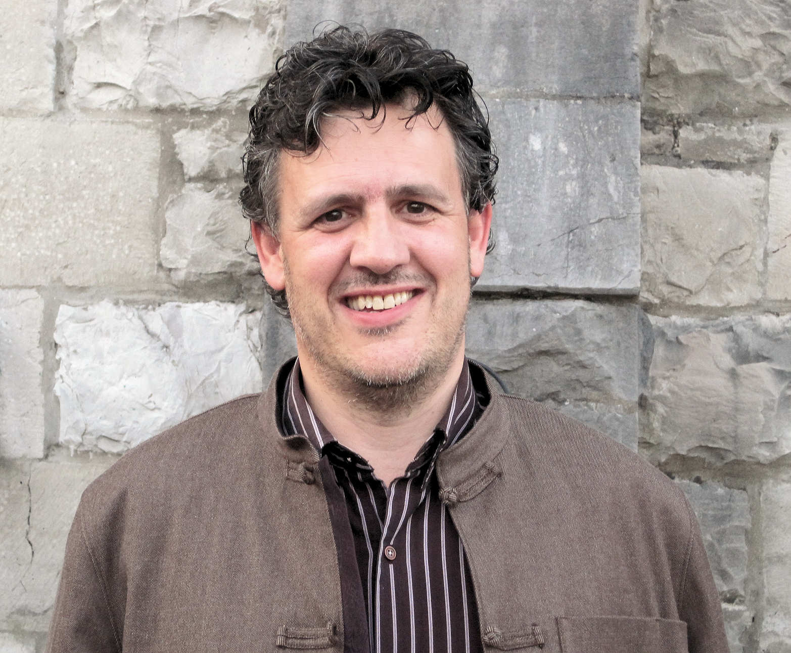 Rhys Meirion, tenor from Rhuthun, Wales. His duet album with Bryn Terfel “Benedictus” was nominated for a Classical Brit Award in 2006.